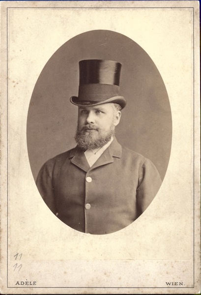 Heinrich II. Larisch Mönnich (1850 - 1918).